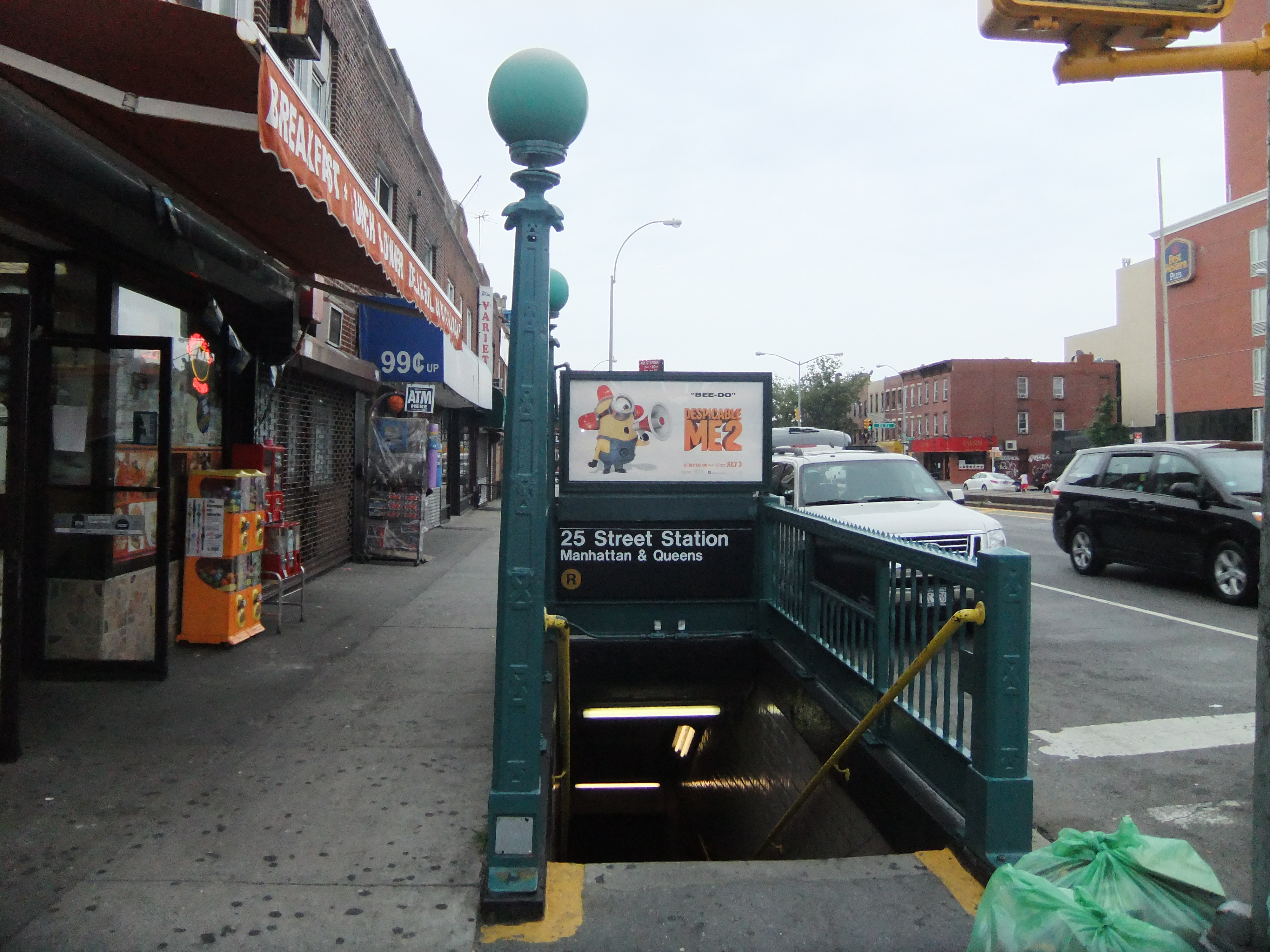 Entrance to the BMT 25th Street subway station (towards Manhattan and Queens)